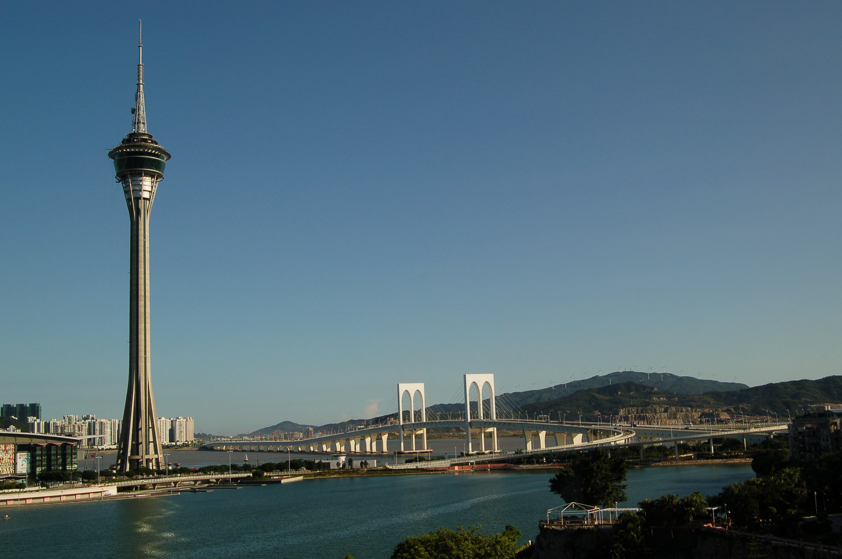 Television tower and Sai Van bridge